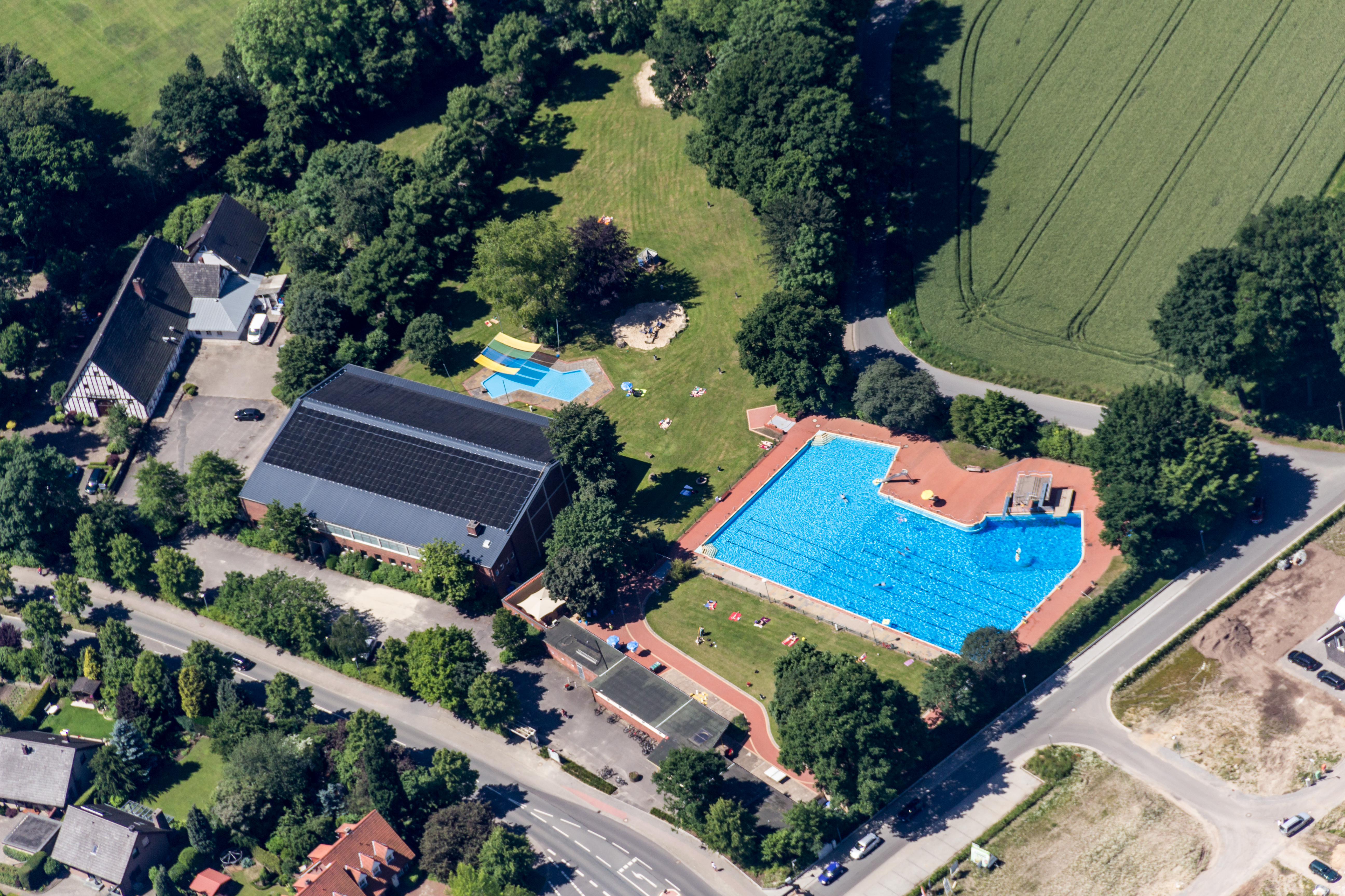 Lido, Mettingen, North Rhine-Westphalia, Germany